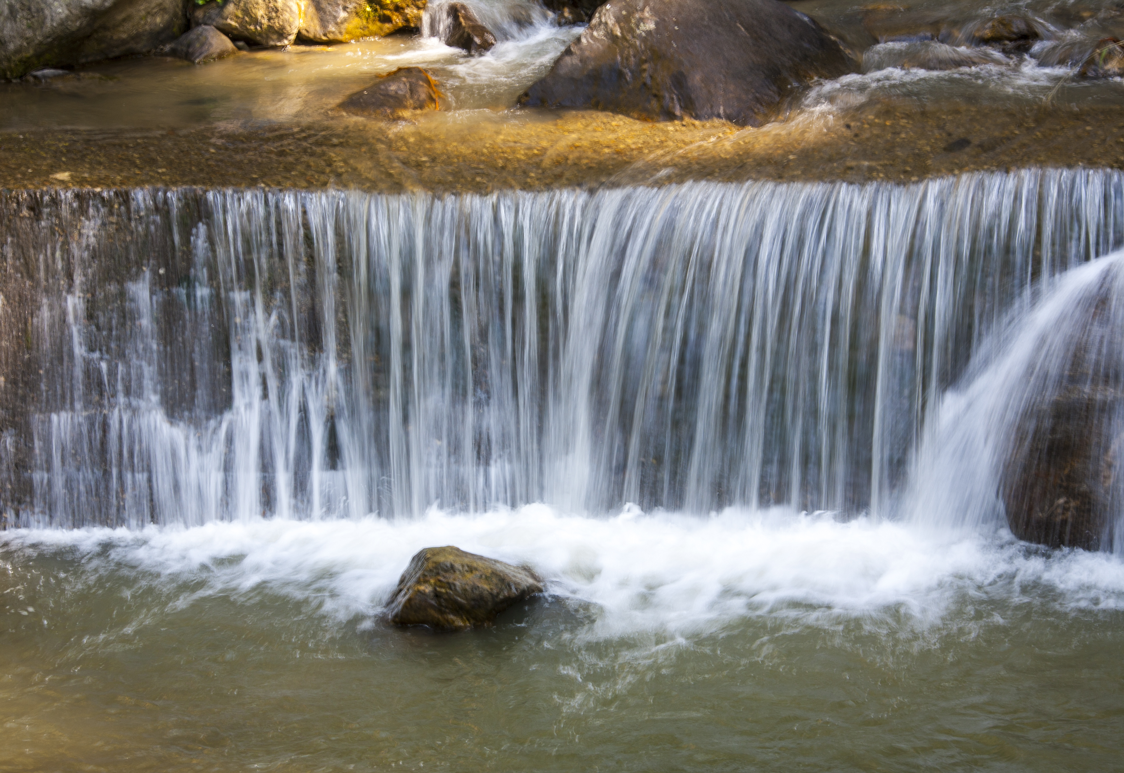 Ban Jhakri Falls is Located en route to Ranka and 4 km away from Gangtok.